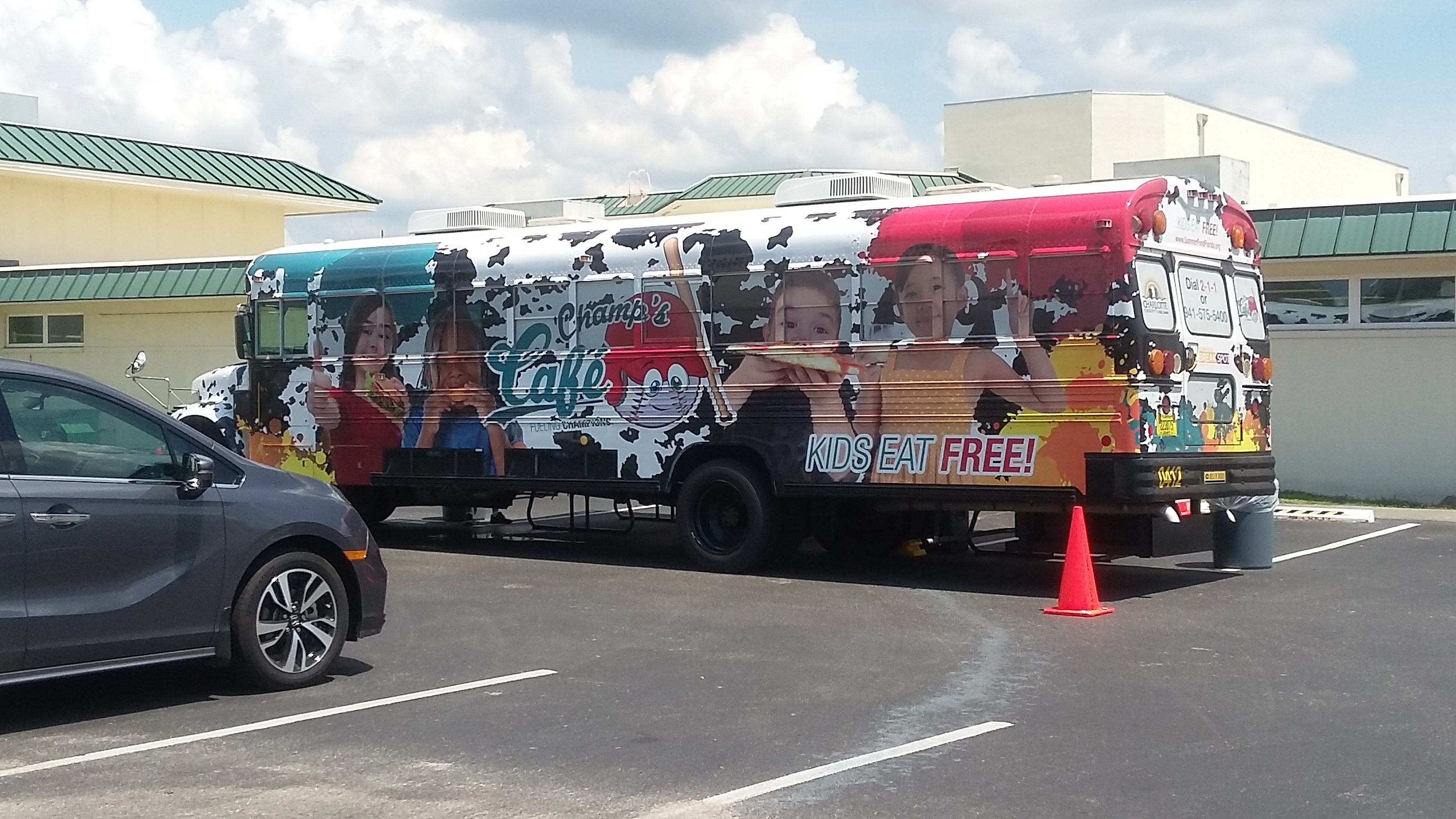 A mobile cafeteria known as "Champ's On Wheels" (COW) used by Champ's Cafe, Charlotte County Public Schools' food service program, used for summer feeding of public school students. It was parked at the Charlotte County Cultural Center in Port Charlotte.